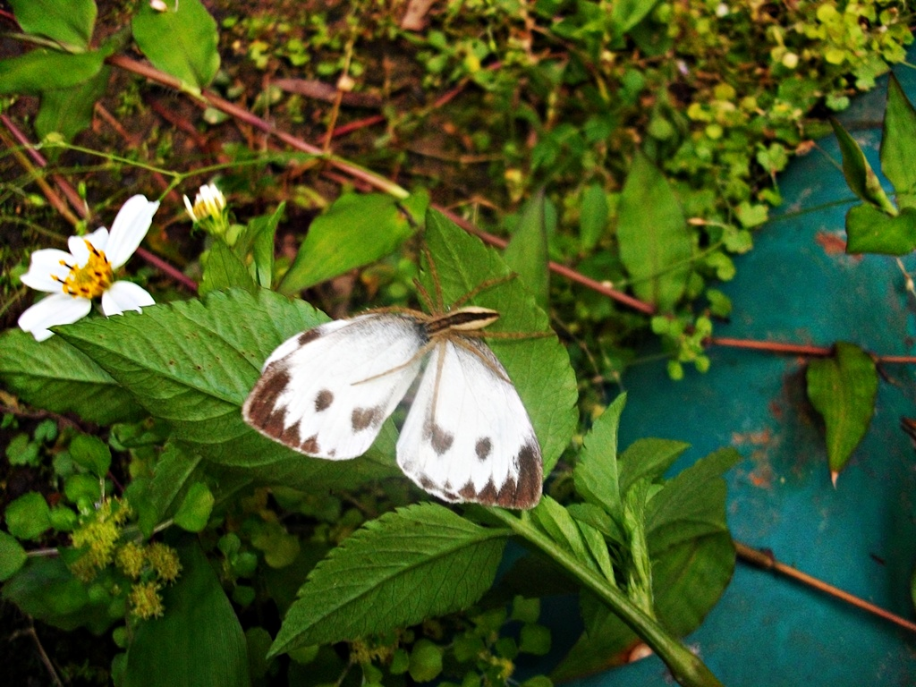 Dolomedes saganus